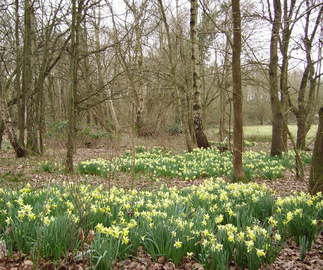 Daffodils in Ambarrow Court, near to Sandhurst, Bracknell Forest, Great Britain. Ambarroow Court is owned and run by the National Trust. It is a local nature reserve and wildlife heritage site.